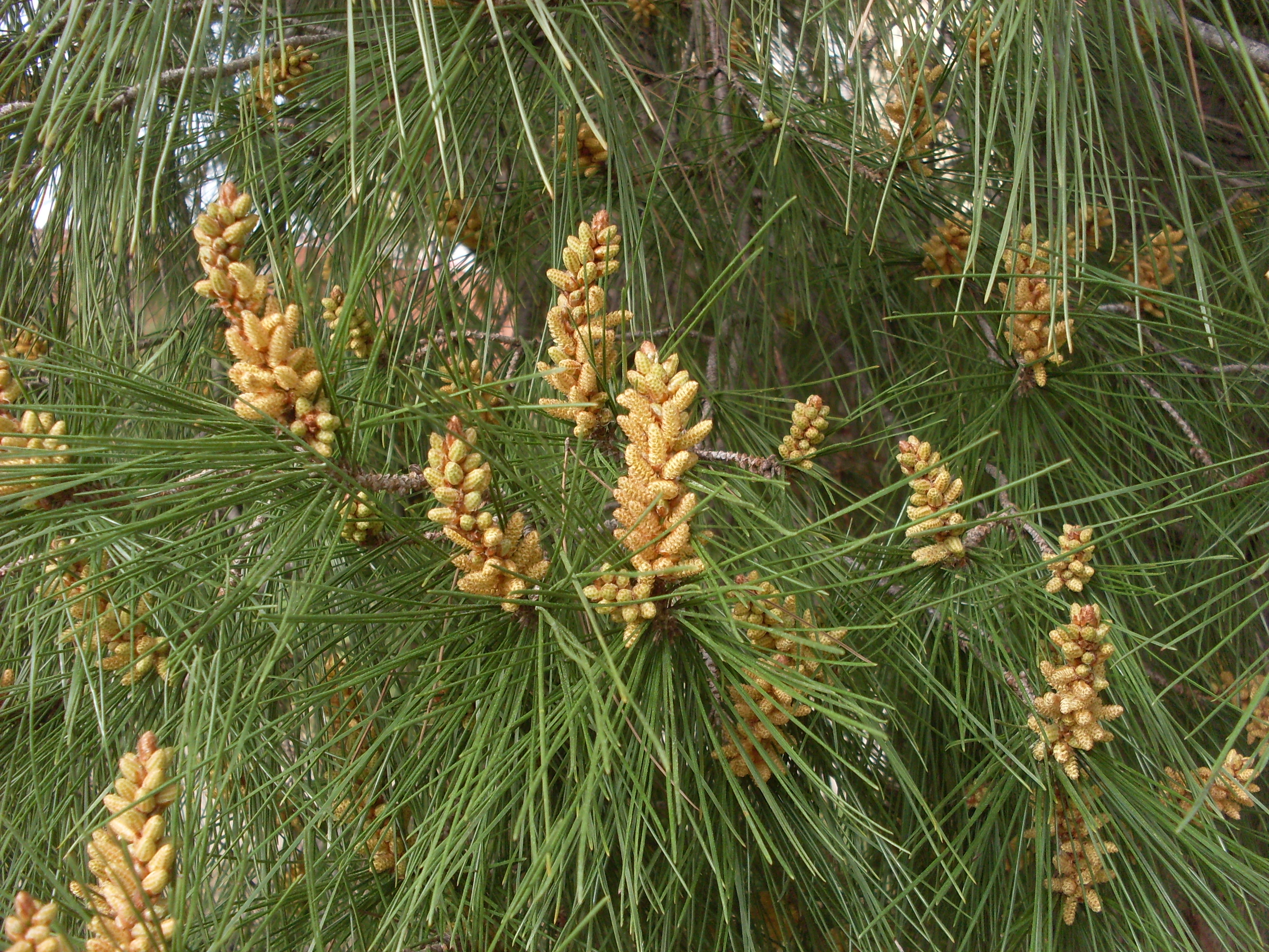 Male cones of Stone Pine (Pinus pinea L.)